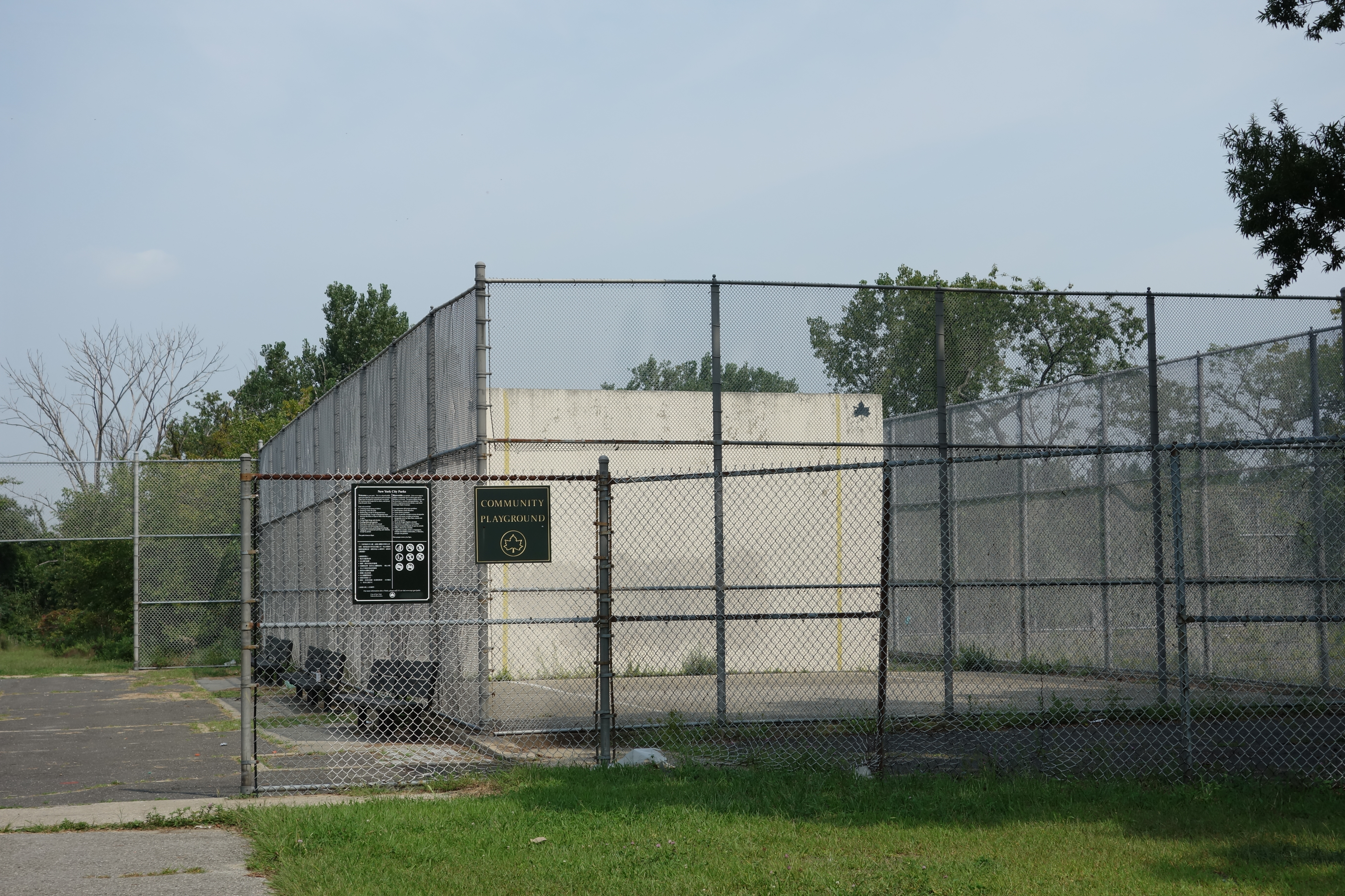 Looking north towards the empty handballl courts near the center of Rockaway Community Park (here signed as "Community Playground"; formerly Edgemere Park), on Almeda Avenue across from the Edgemere Houses in Edgemere, Queens. The park is plagued by an abundance of mosquitoes, due to its location on Jamaica Bay, with the entire park seemingly deserted, and also in disrepair.